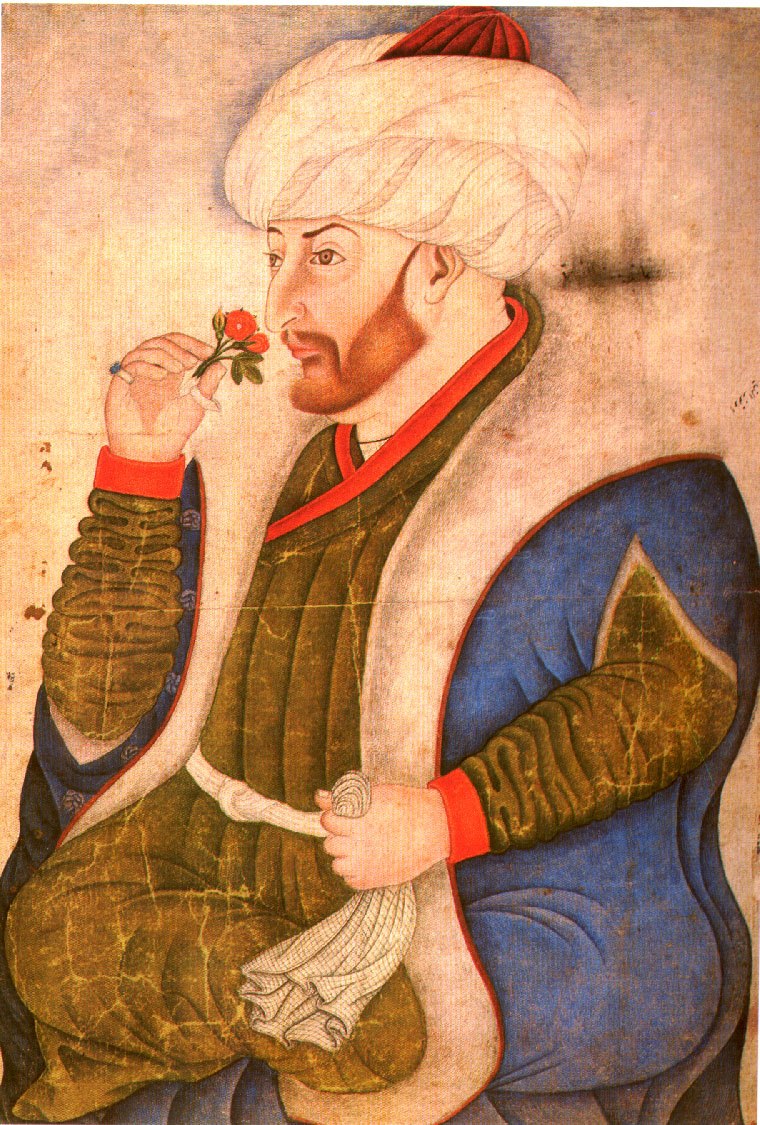 Sultan Mehmed II smelling a rose, from the Topkapı Sarayı (Palace) Albums. Hazine 2153, folio 10a.